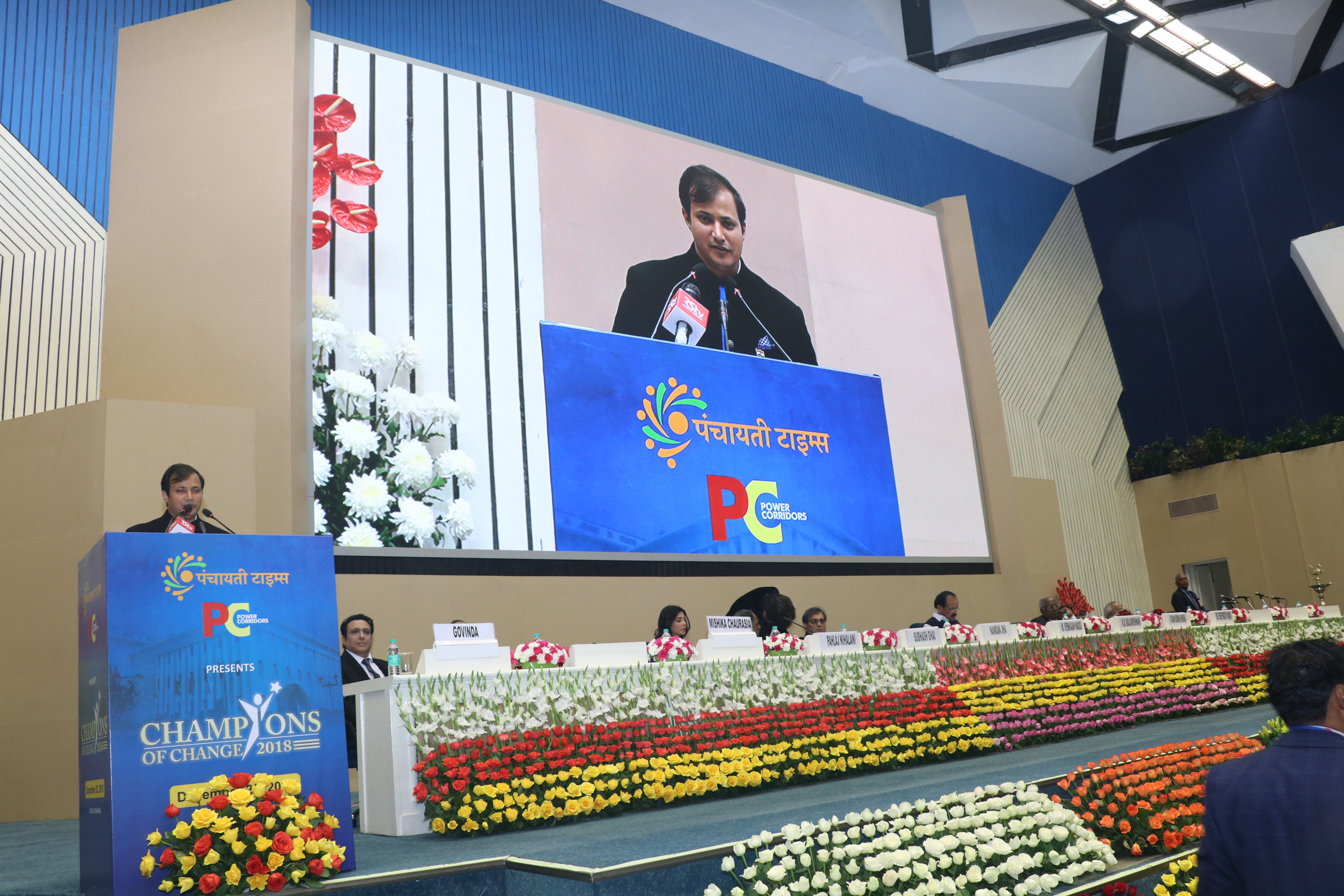 Nandan Jha Speech at Vigyan Bhawan